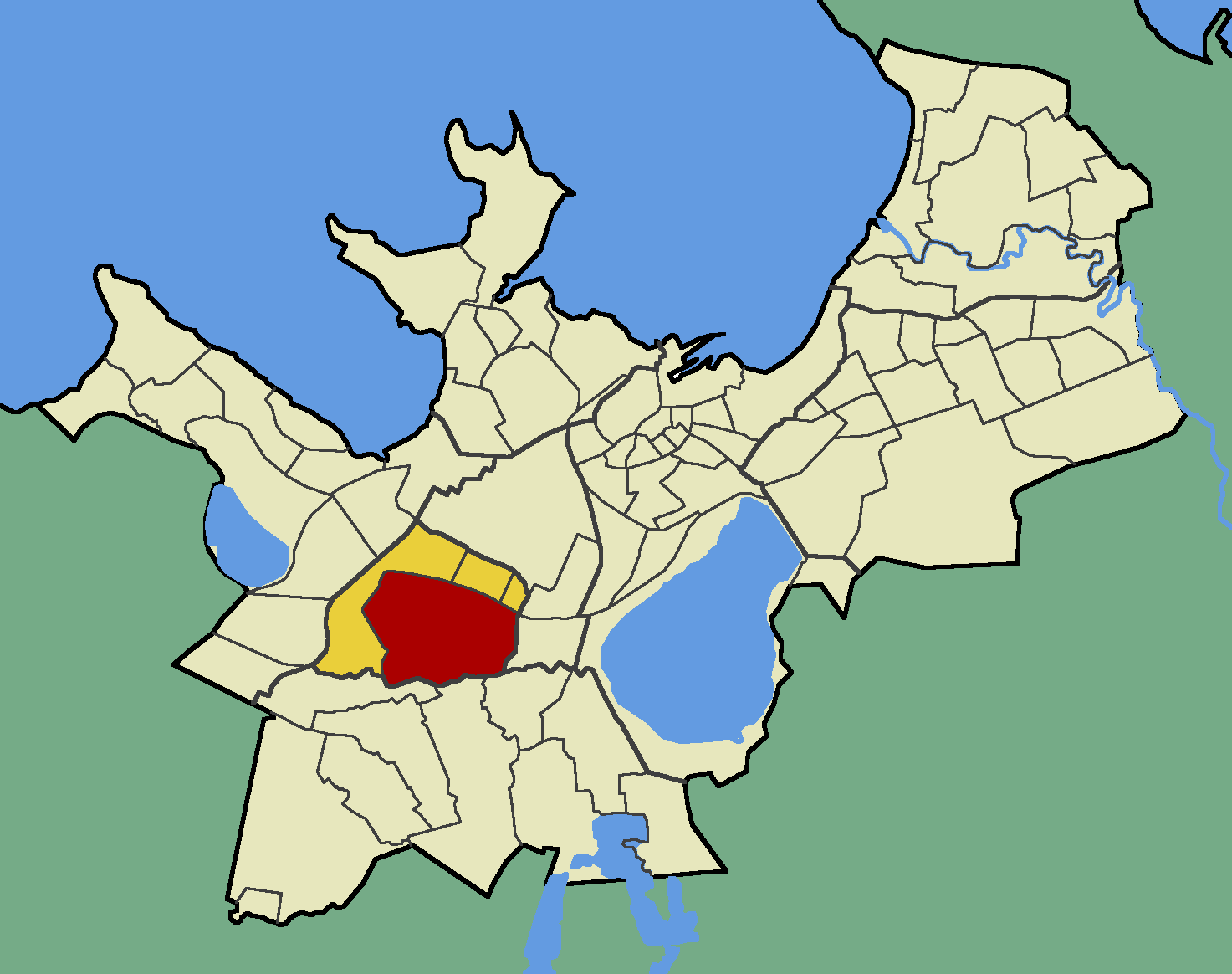 Map of Tallinn (Estonia) with borders of the quarters, Mustamäe district and Mustamäe quarter emphasised